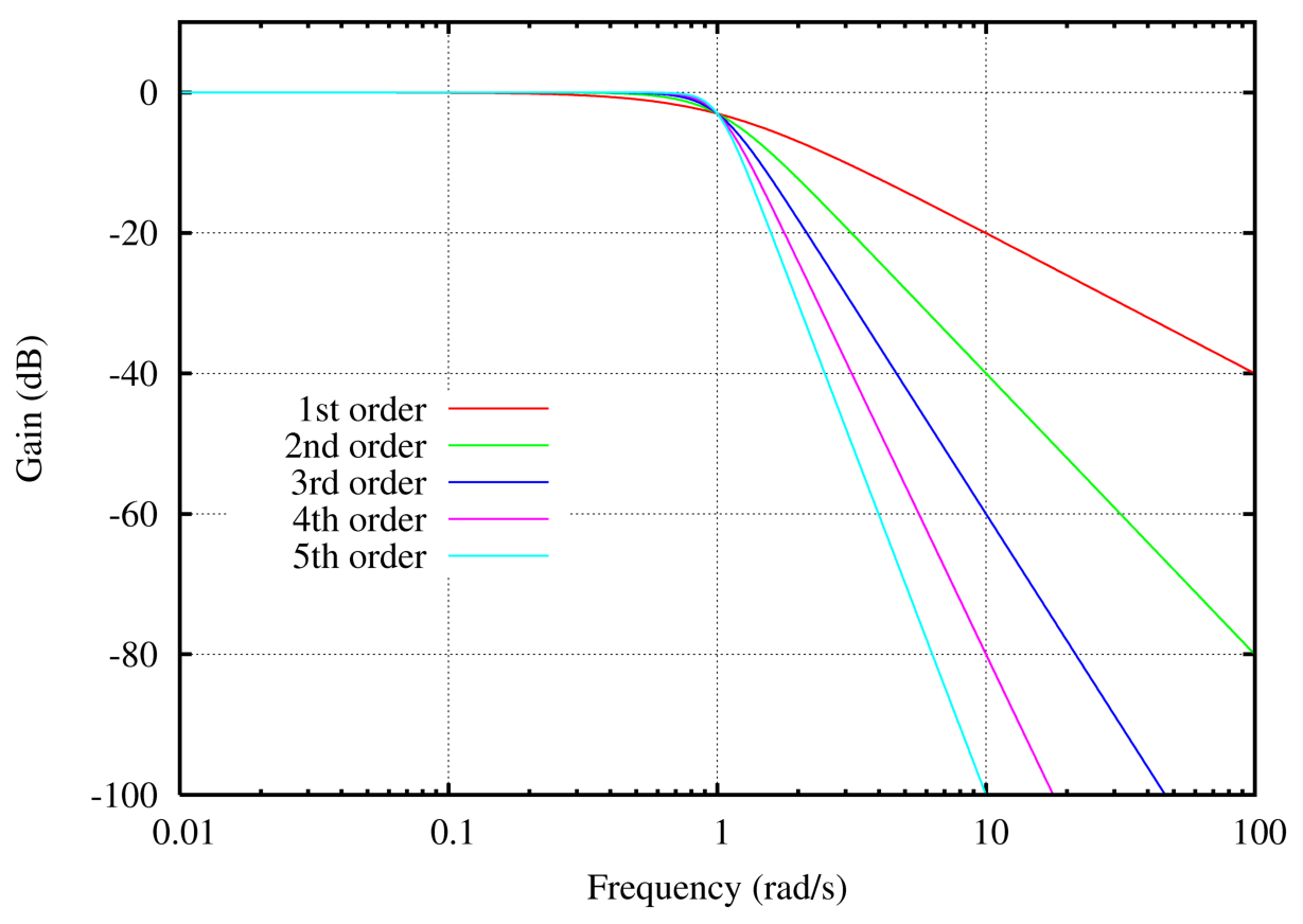 Butterworth filter frequency response of several orders. Cutoff frequency is normalized to 1 rad/s. Gain is normalized to 0 dB in the passband.See Wikipedia graph-making tips. This plot was created with Gnuplot. To convert the PostScript file to PNG: Open it in the GIMP (make sure you have ghostscript installed! - Windows instructions) Enter 500 under Resolution (it doesn't say "DPI" but I think that's what it means) Uncheck Try bounding box (since the bounding box cuts off the edge, unfortunately. You can try with the bounding box first.) Enter large values for Width and Height Check Color Check Strong anti-aliasing for both graphics and text Crop off extra whitespace (Shift+C if you can't find it in the toolbox) Possibly need to rotate it: Click Image → Transform → Rotate 90 degrees clockwise Filters → Blur → Gaussian blur at 2.0 px (No need to blur if you use strong anti-aliasing during conversion. I see no significant difference between end results.) Image → Scale Image... Width and Height at 25% Cubic interpolation You can view at normal size if you want by pressing 1, Ctrl+E Save as Butterworth orders.png